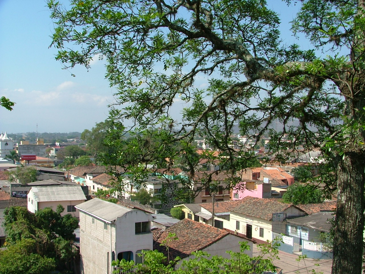 Dyer, personal collection. Overlooking Barrio El Centro from La Cruz, Juticalpa, Honduras, 2005